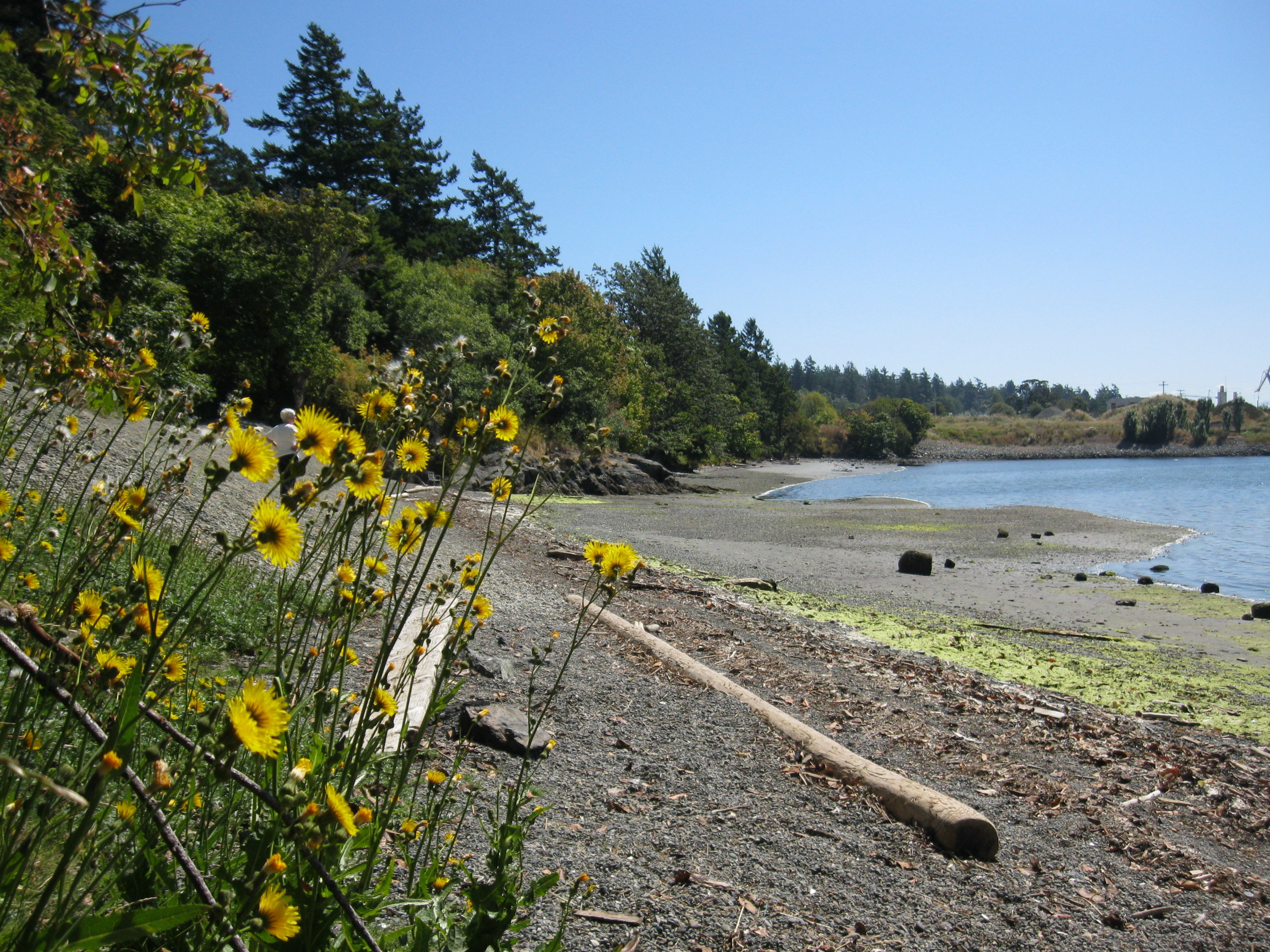 Portage park Thetis Cove beach. READ INFO IN PANORAMIO/COMMENTS